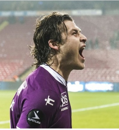 The football player Erik Sviatchenko.